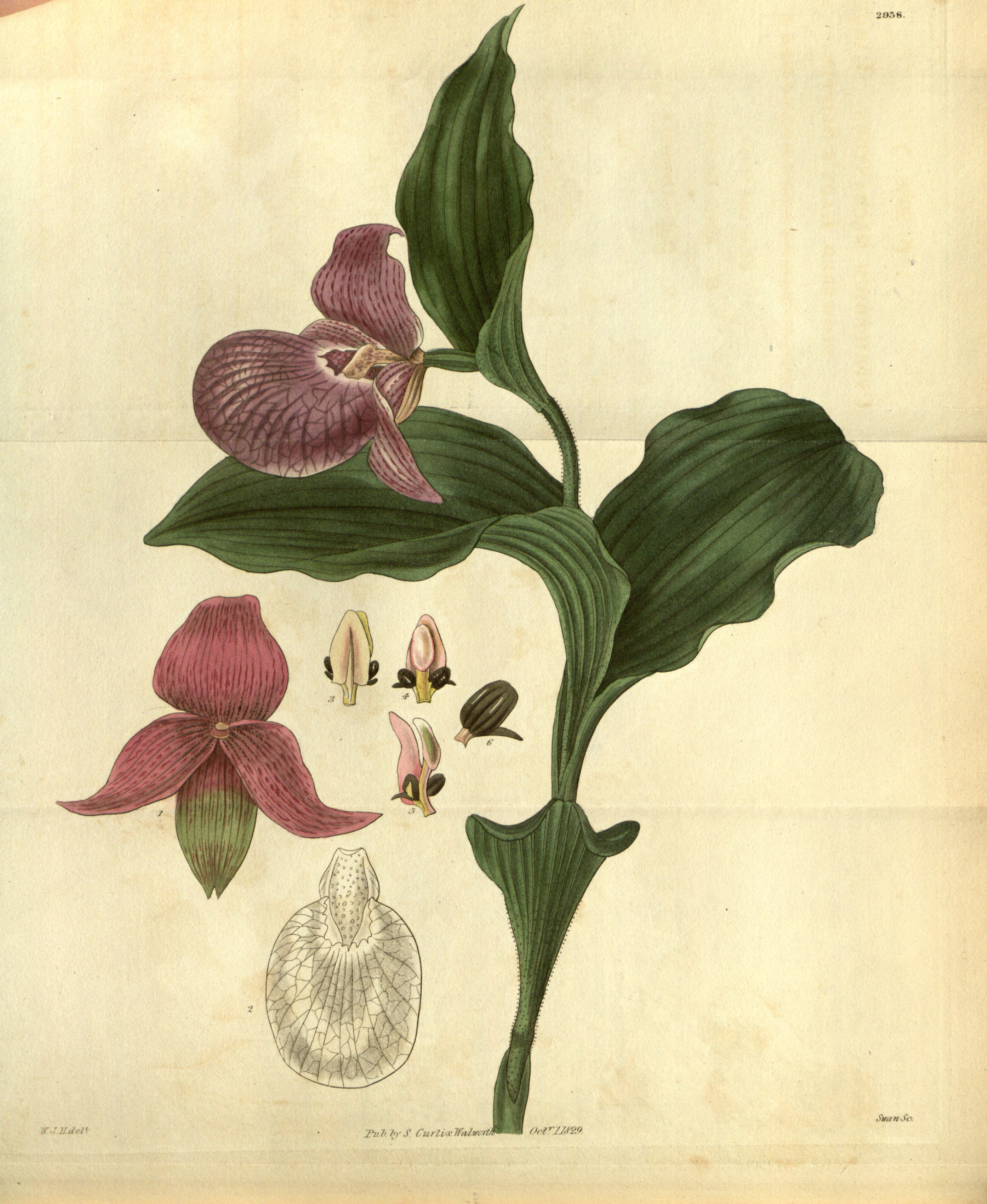 Illustration of Cypripedium macranthos (Orig. Cypripedium macranthon)